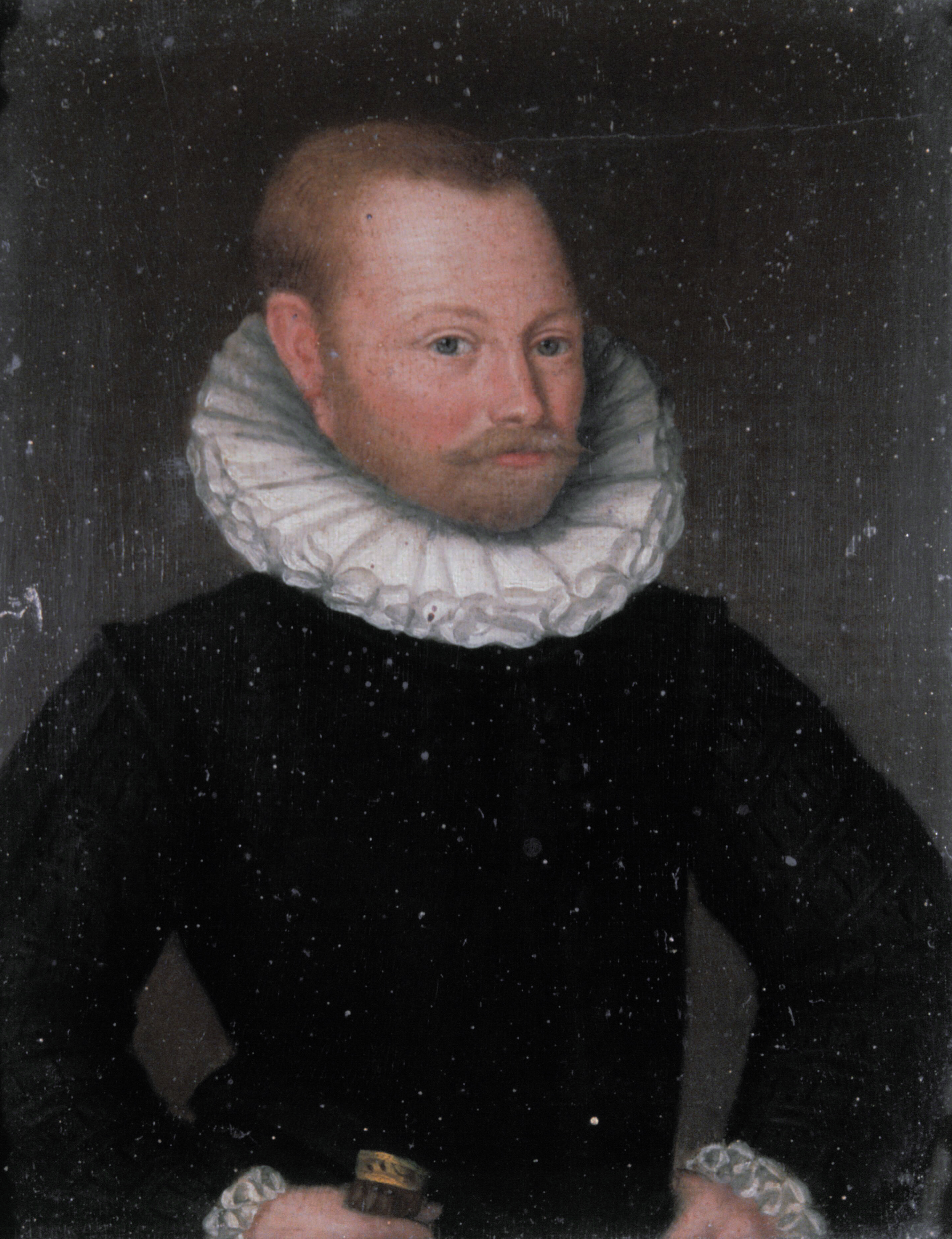 Jan Anthonisse de Jonge (1546-1617) oil on panel 17,7 x 13,7 cm 1625 - 1649